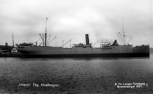 A/S Tønsberg Hvalfangei's whaling factory ship Orwell (1905), ex. Knight Templar. Scrapped in 1954